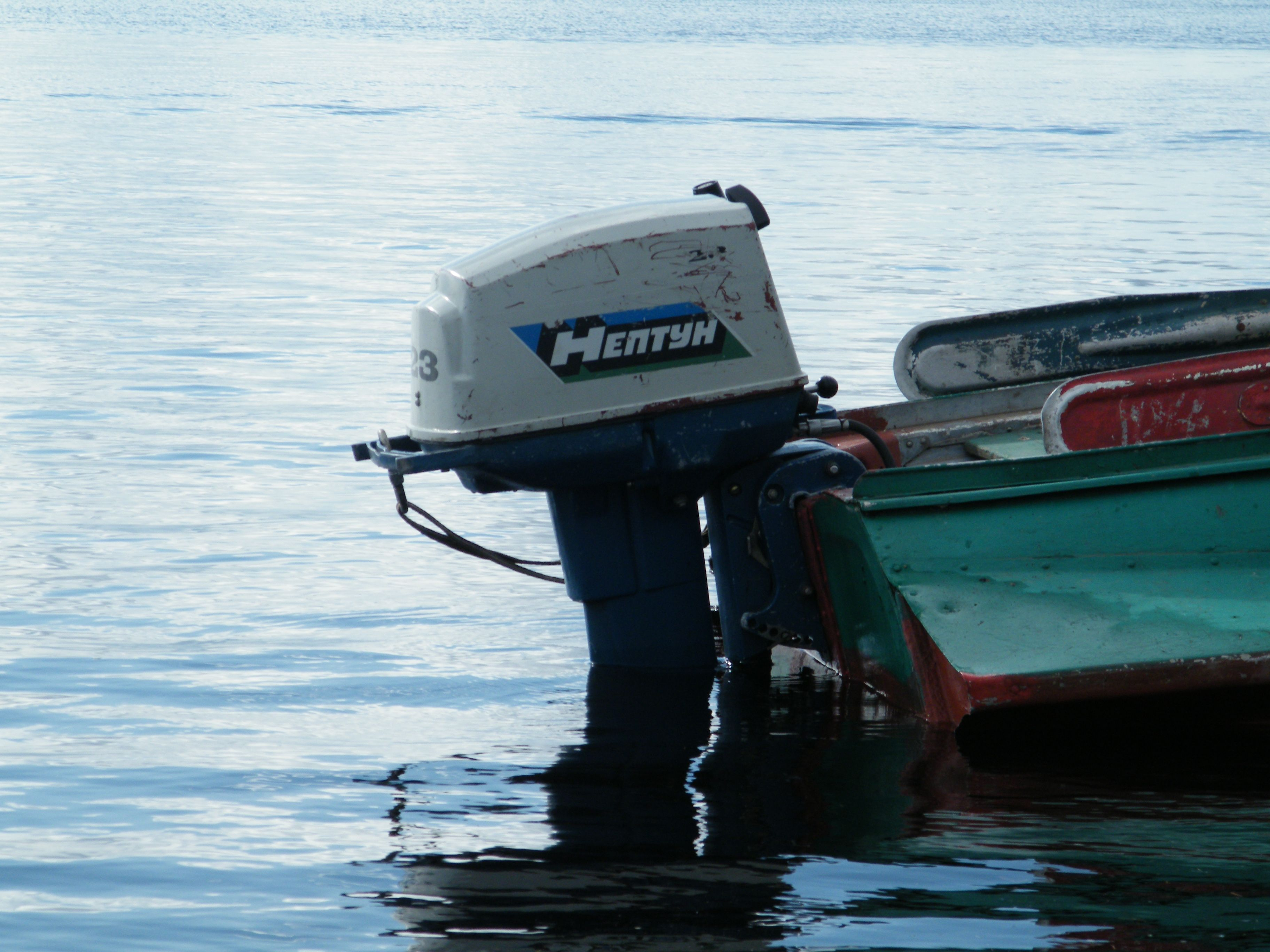 Казанка с булями и Нептун-23